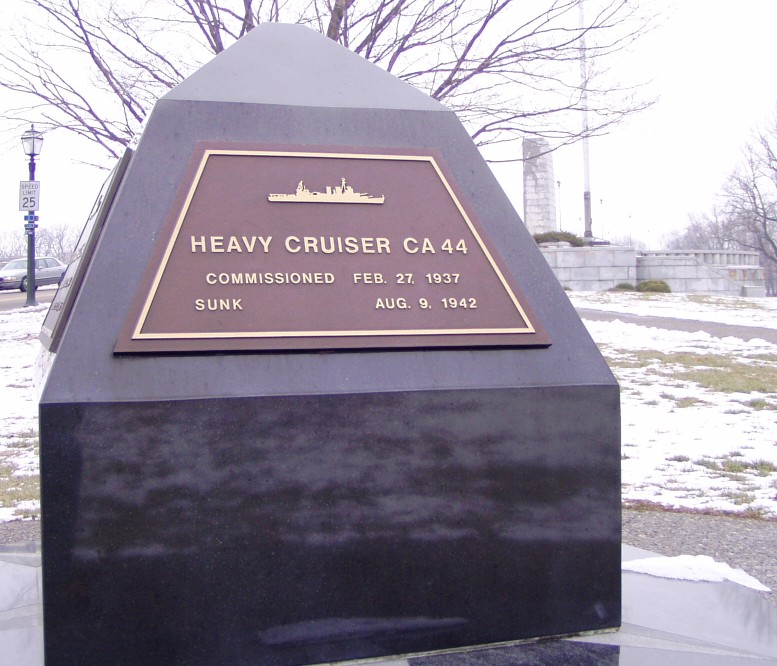 Memorial to ships named USS Vincennes. Location: Vincennes, near Vigo Bridge, in background.